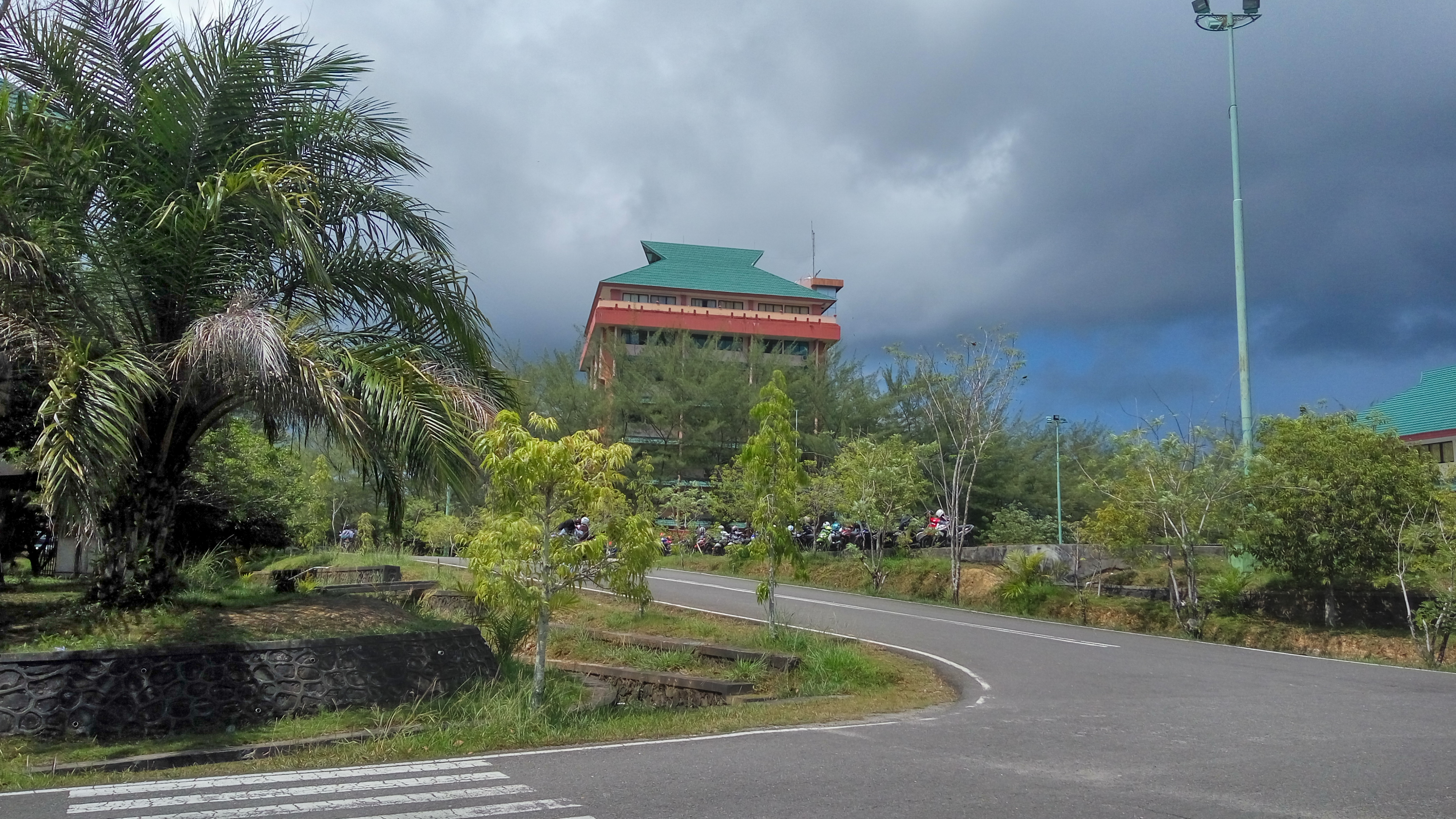 A building in Borneo University